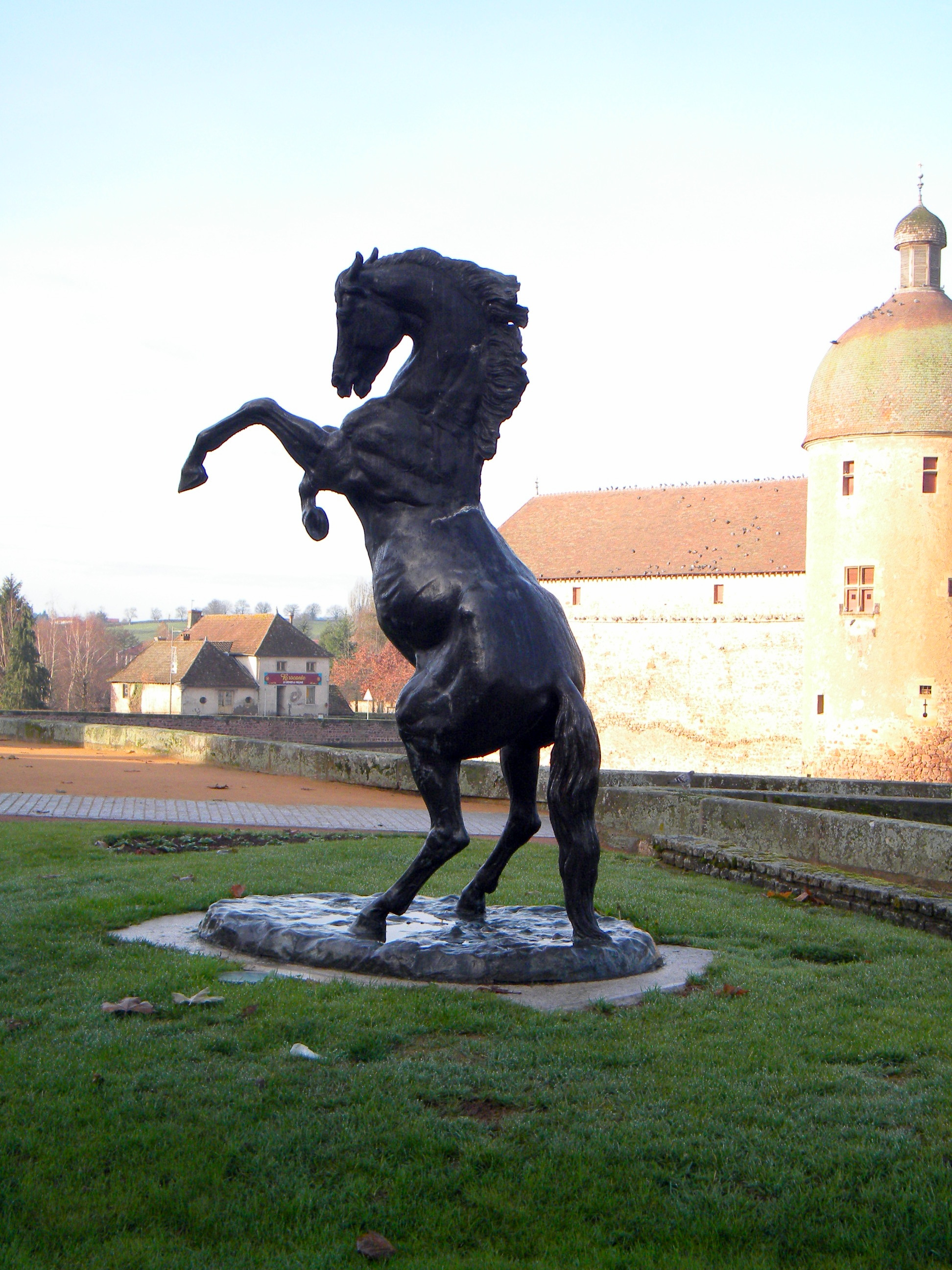 Sculpture cheval devant le Château, oeuvre de Christian Maas